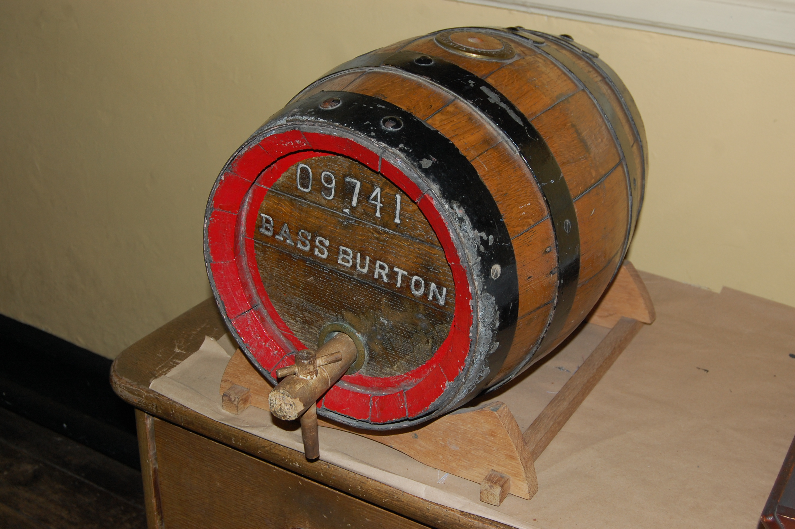 A small wooden barrel (a firkin?) from the Bass Brewery at Burton-upon-Trent, Staffordshire, England; now in the Staffordshire County Museum at Shugborough Hall.